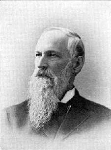 Charles W. Walton; from the Biographical Directory of the United States Congress, Washington, DC.